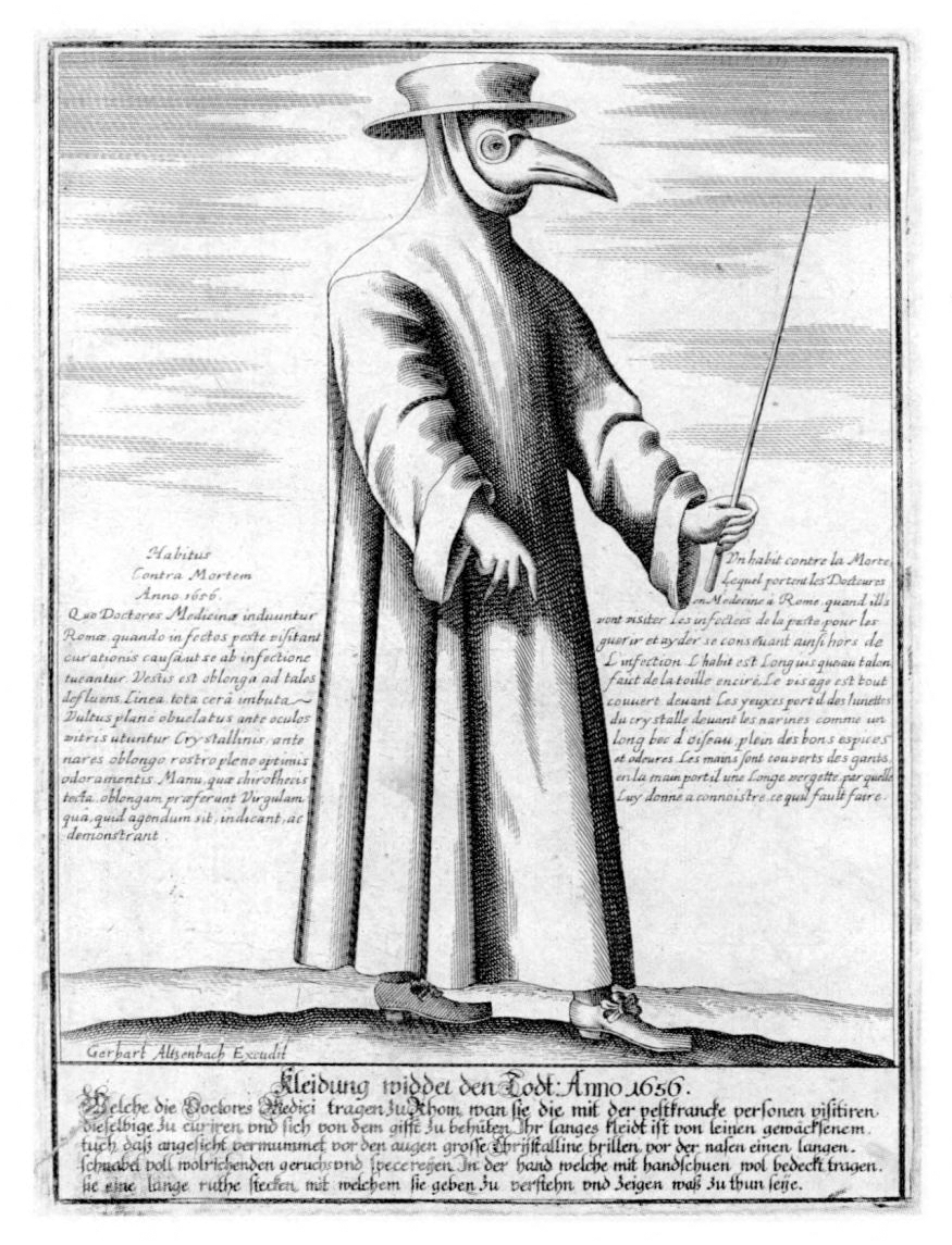 Gerhart Altzenbach, Kleidung widder den Todt: Anno 1656 (Habitus Contra Mortem / Un habit contre la Morte), c.1656. The engraving depicts a Roman plague doctor wearing protective clothing – including glass goggles and beak-shaped mask – typical of its time and place. The attire and its purpose are described in Latin, French and German. The image is discussed in G. L. Townsend, ‘The Plague Doctor’, J Hist Med Allied Sci, 20 (1965), 276.